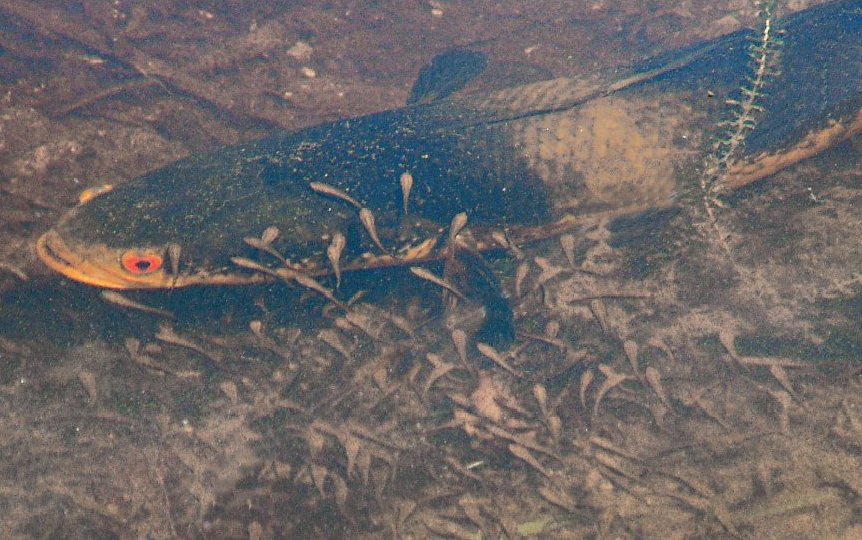 Bullseye snakehead (Channa marulius), adult protecting young.